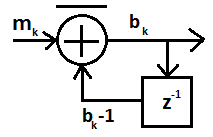 DPSK encoder block diagram